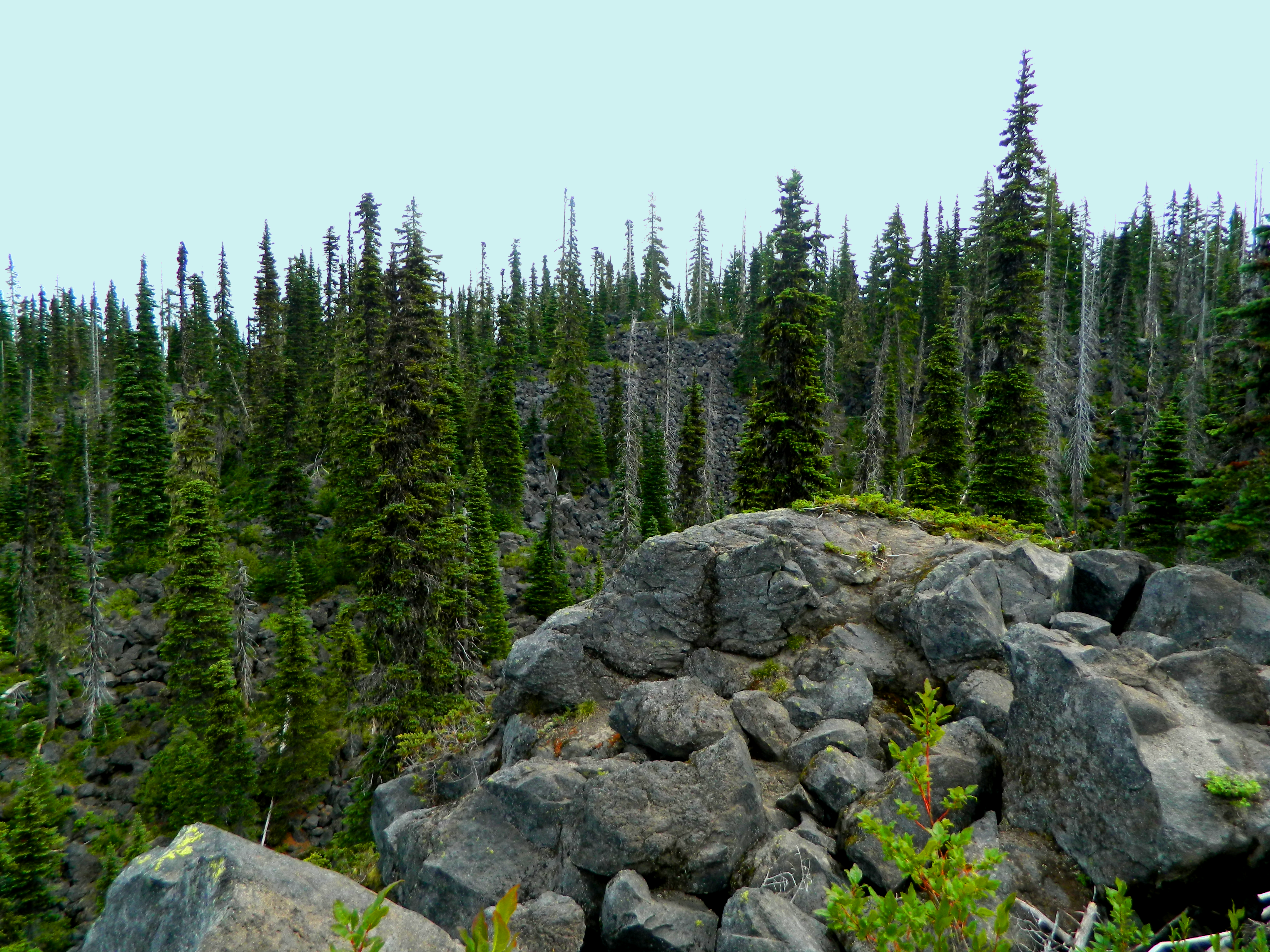 Takh Takh Lava Flow originating from Mount Adams